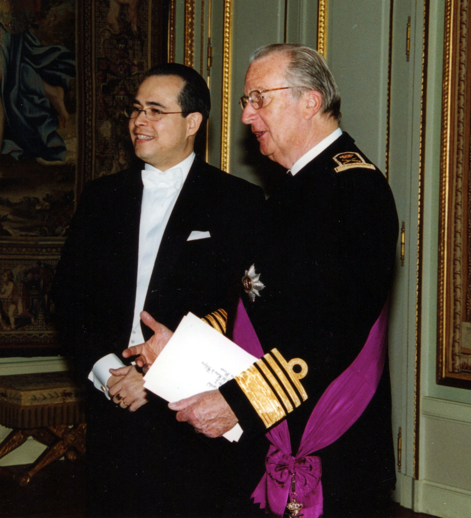 Federico Alberto Cuello Camilo, Ambassador to Belgium, presented his diplomatic credentials to Albert II, King, in Belgium on February 16, 2005.